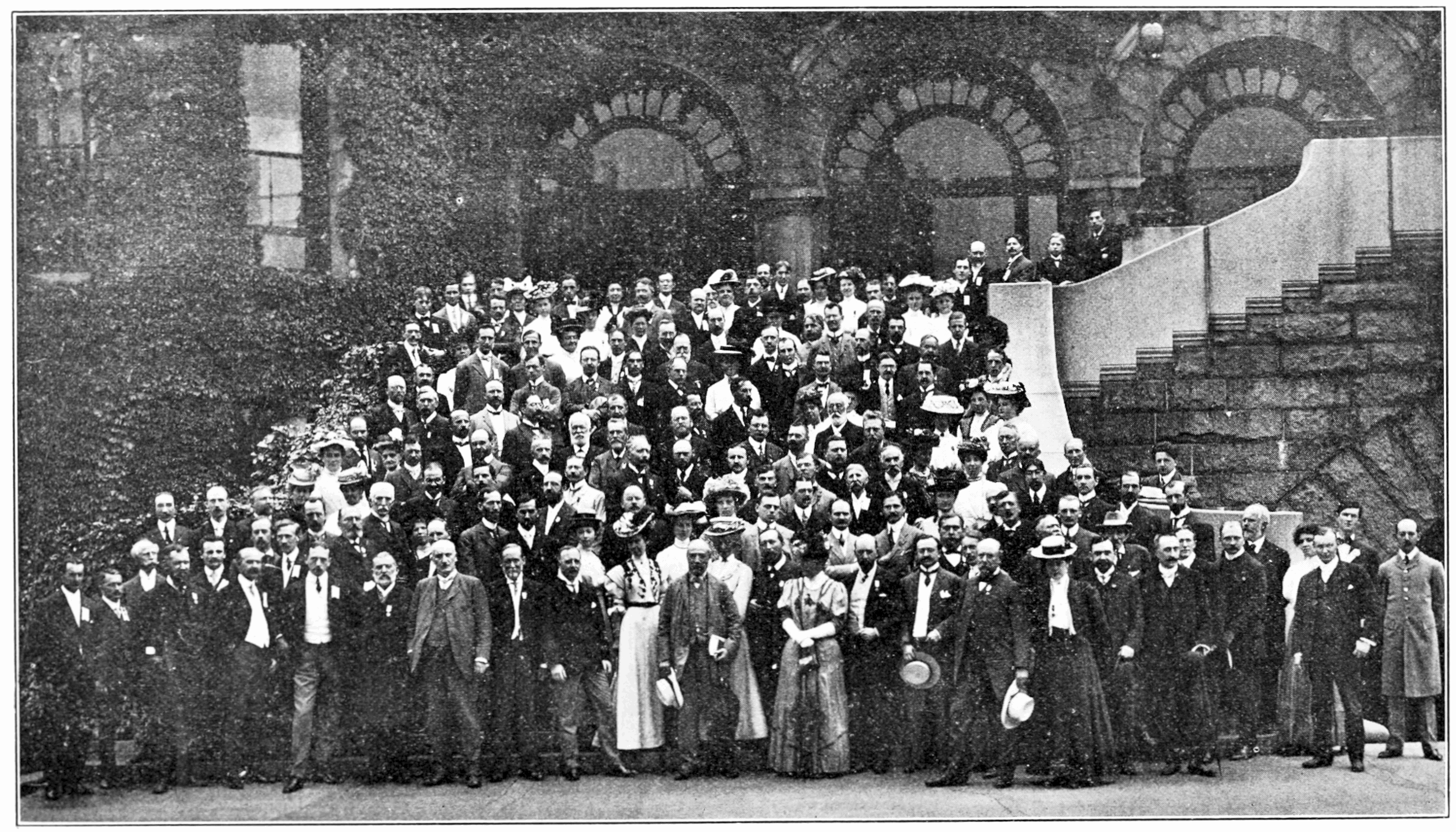 International Zoological Congress in New York City 1907